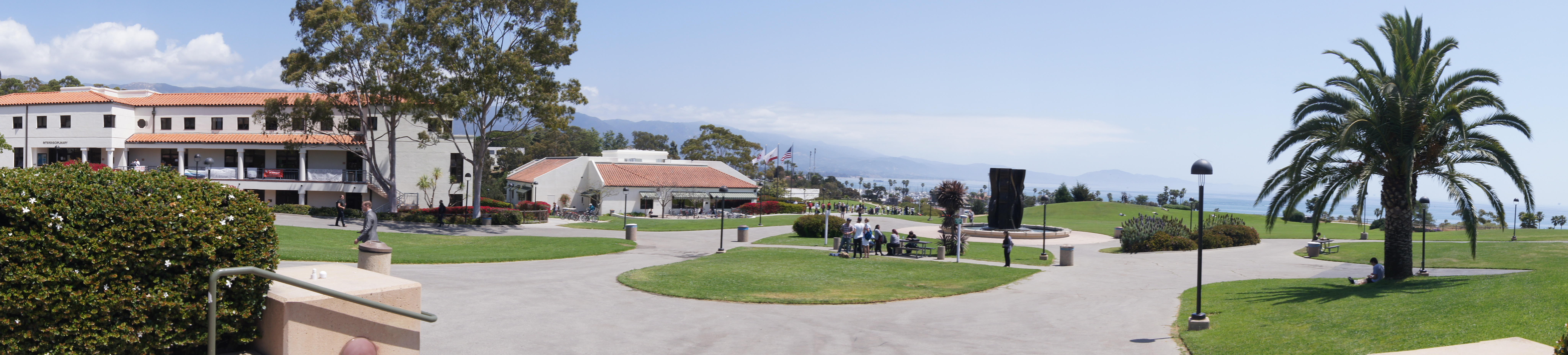 Santa Barbara west campus